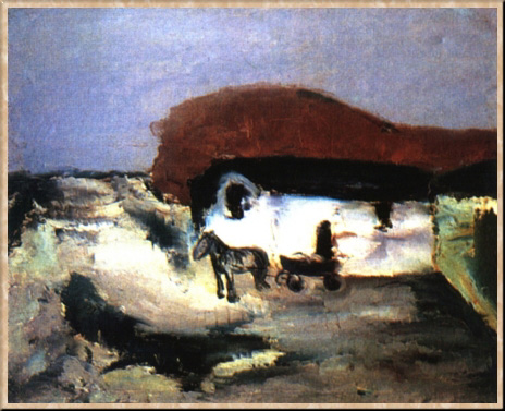 Steppe landscape with a horse